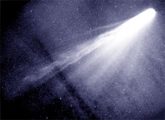 Photograph of Halley's Comet.